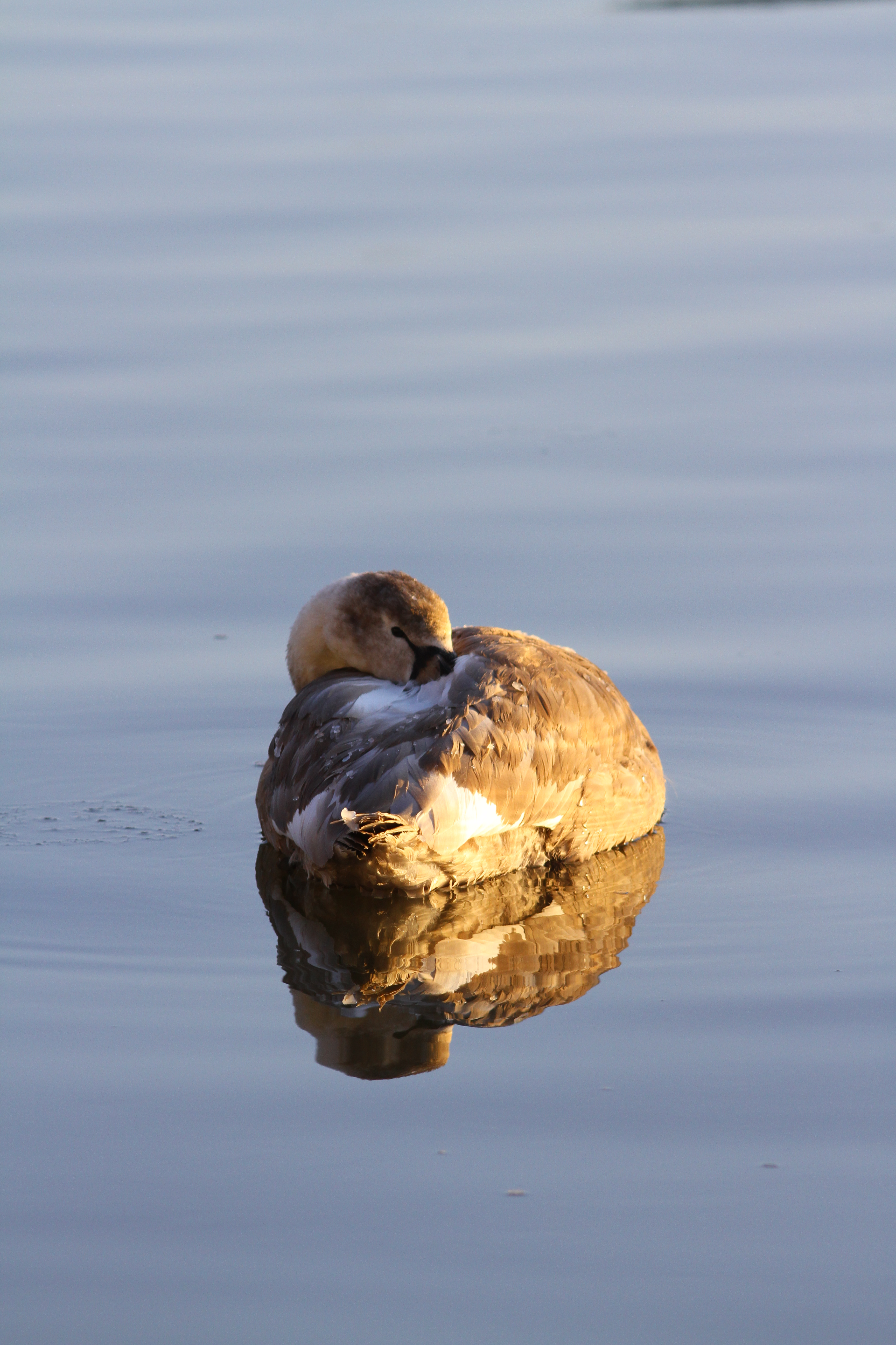 Wintering 2cy Mute Swan (Cygnus olor) resting in Kalevanlahti Naantali, Finland.